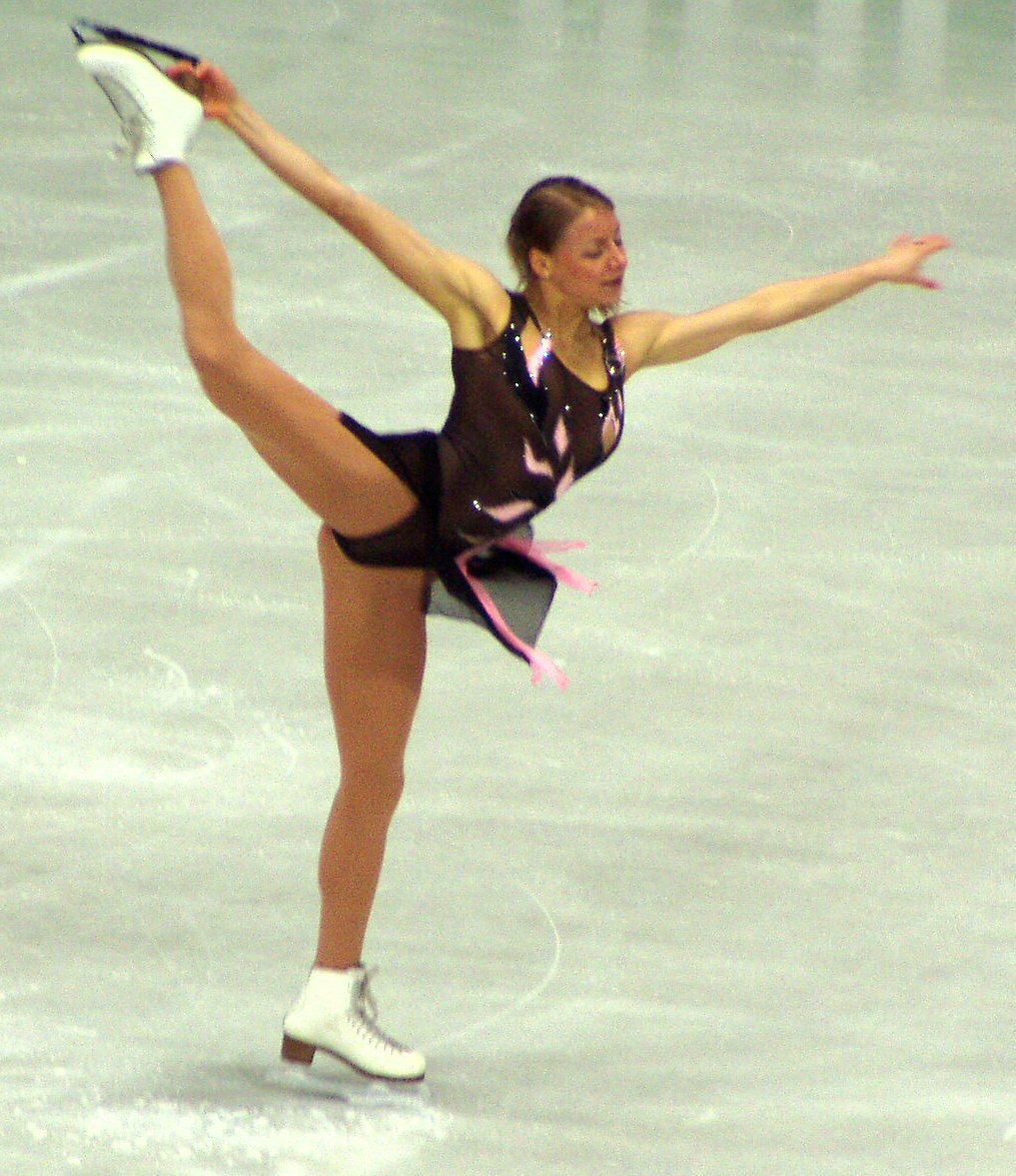 Viktoria Volchkova at the world championships 2004 in Dortmund